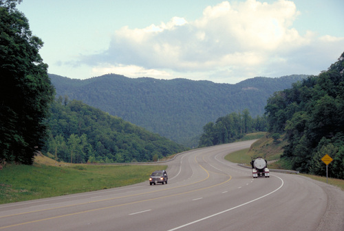 U.S. 23 in Letcher County, Kentucky.